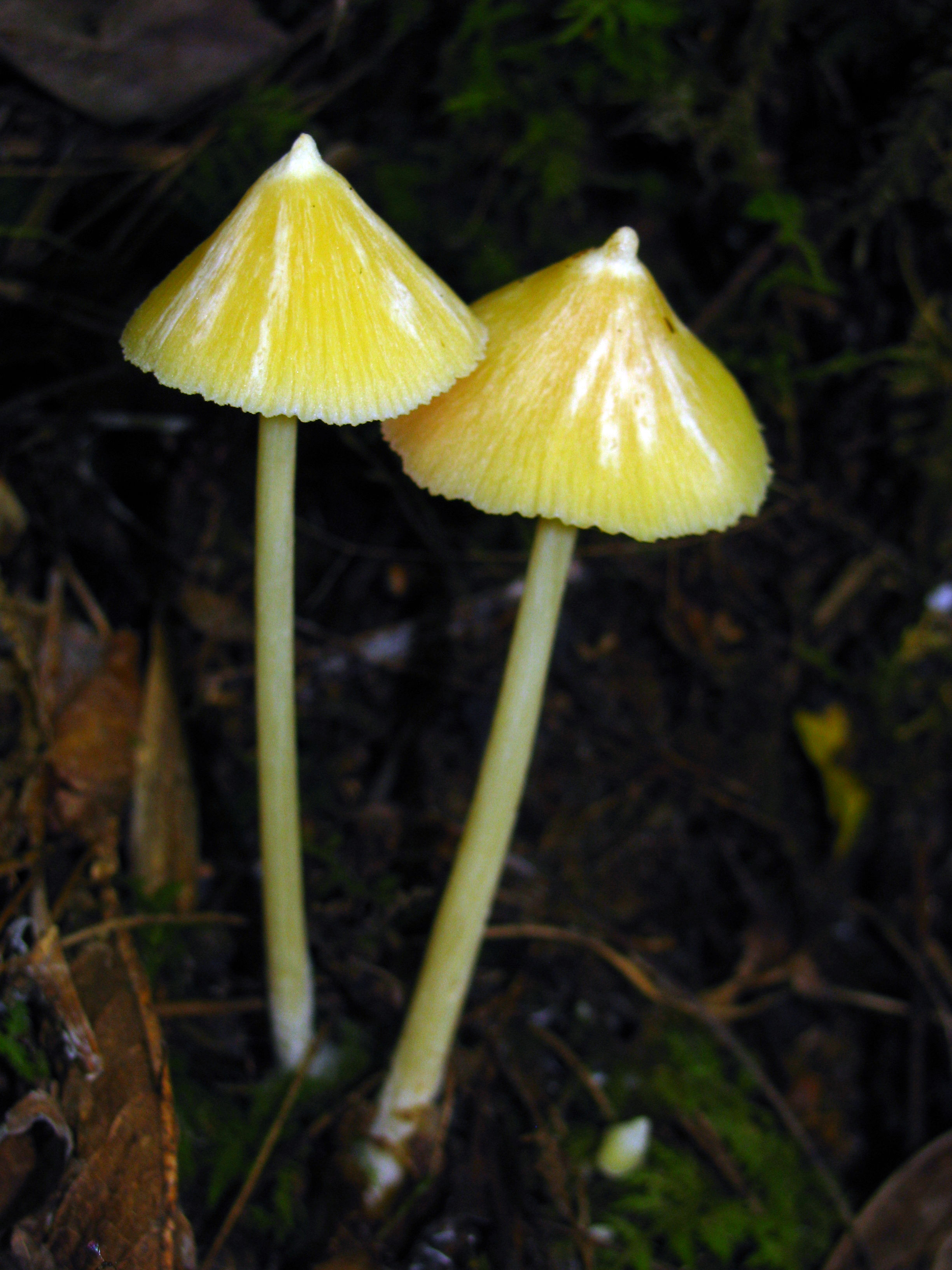 Entoloma murraii Location: Strouds Run State Park, Athens, Ohio, USA